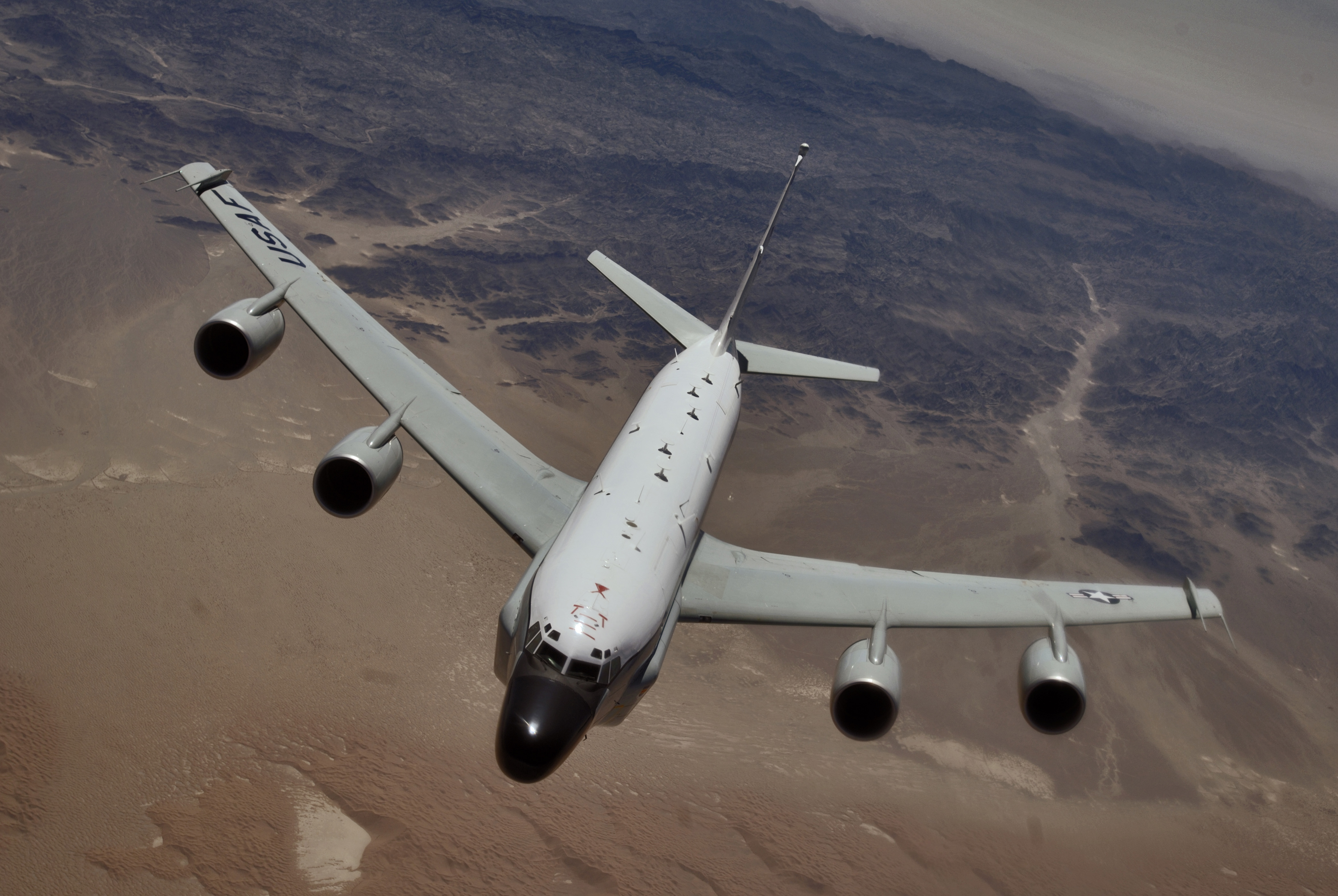 An RC-135 Rivet Joint reconnaissance aircraft moves into position behind a KC-135T/R Stratotanker for an aerial refueling over Southwest Asia March 14, 2006. Members of the RC-135 flight crew are currently deployed to the 763rd Expeditionary Reconnaissance Squadron, in Southwest Asia, from the 343rd Reconnaissance Squadron, Offutt Air Force Base, Neb.